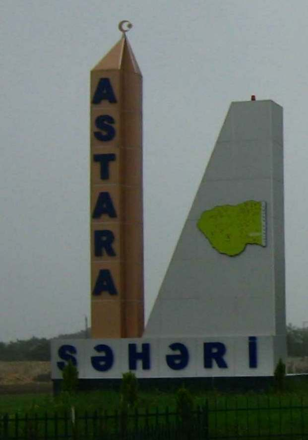 Road sign at the entrance to Astara city, Azerbaijan